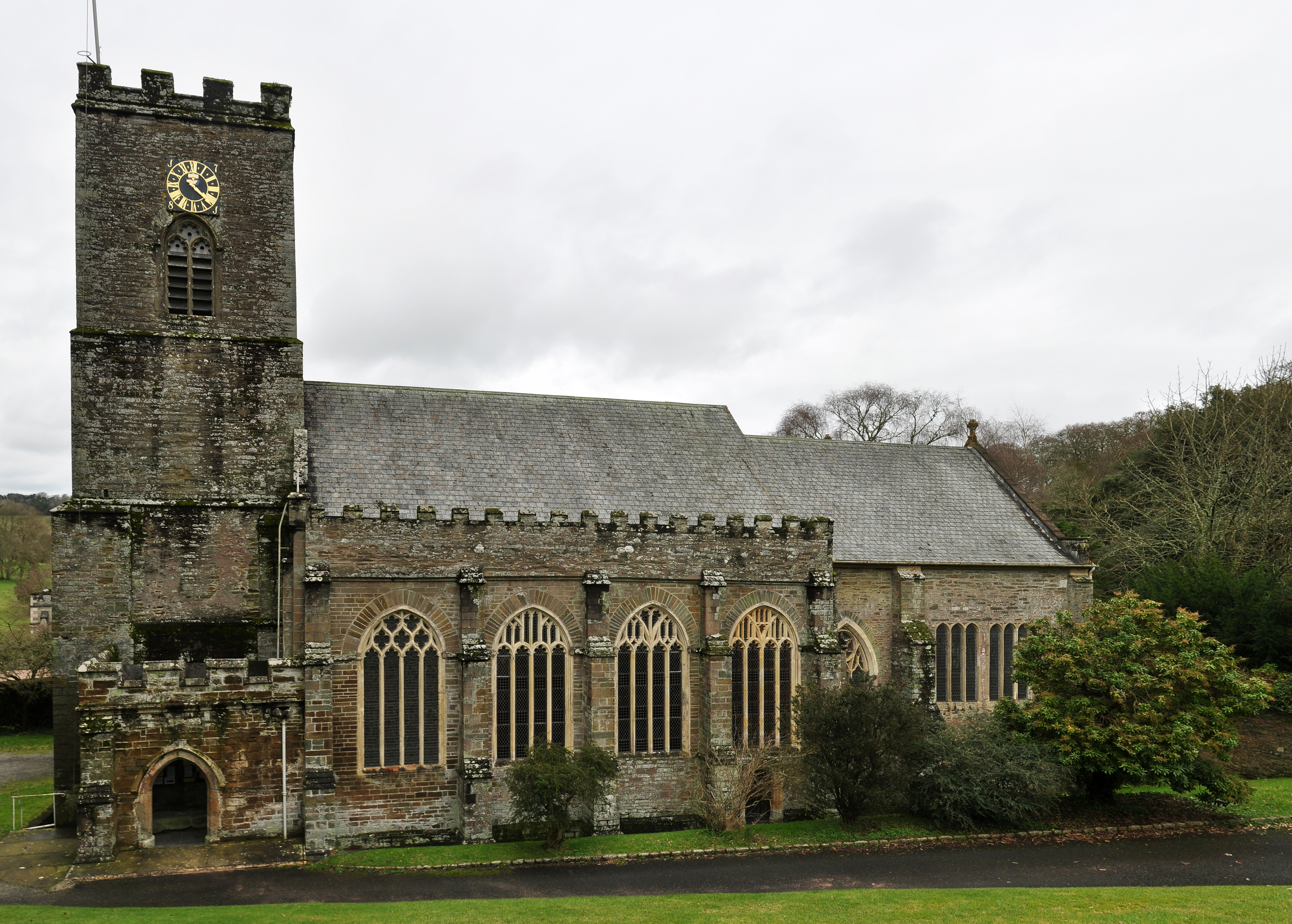 The Church of St Germanus in St Germans, Cornwall